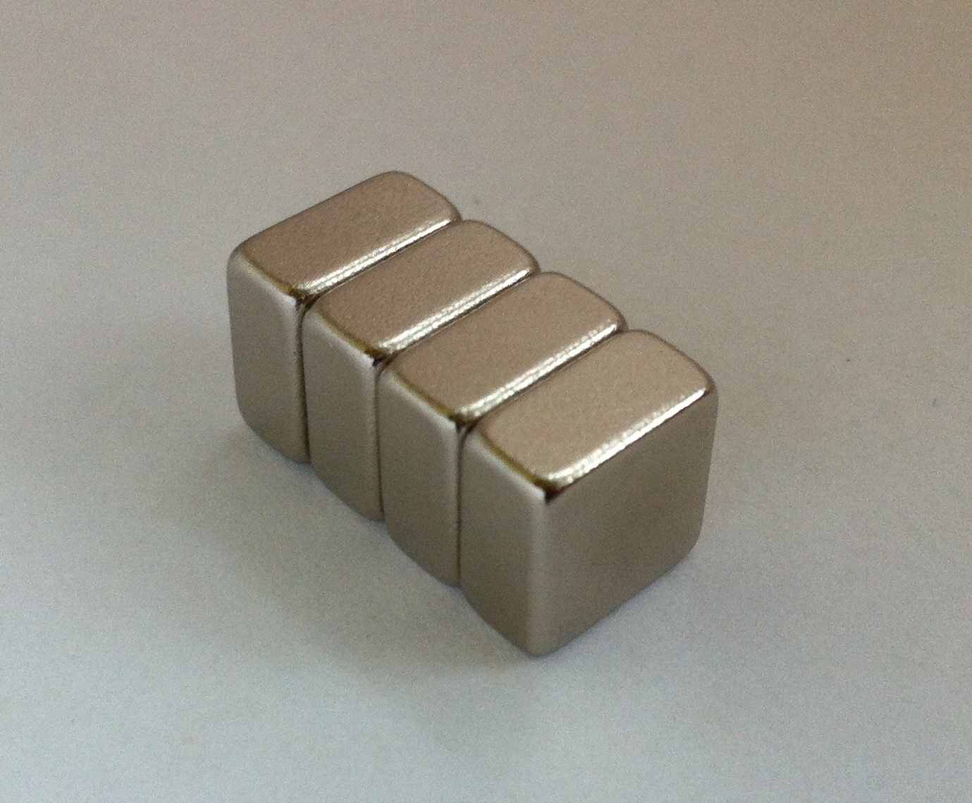 Four 9.5 mm x 9.5 mm x 4.5 mm nickel plated neodymium magnets, N35 grade or higher.